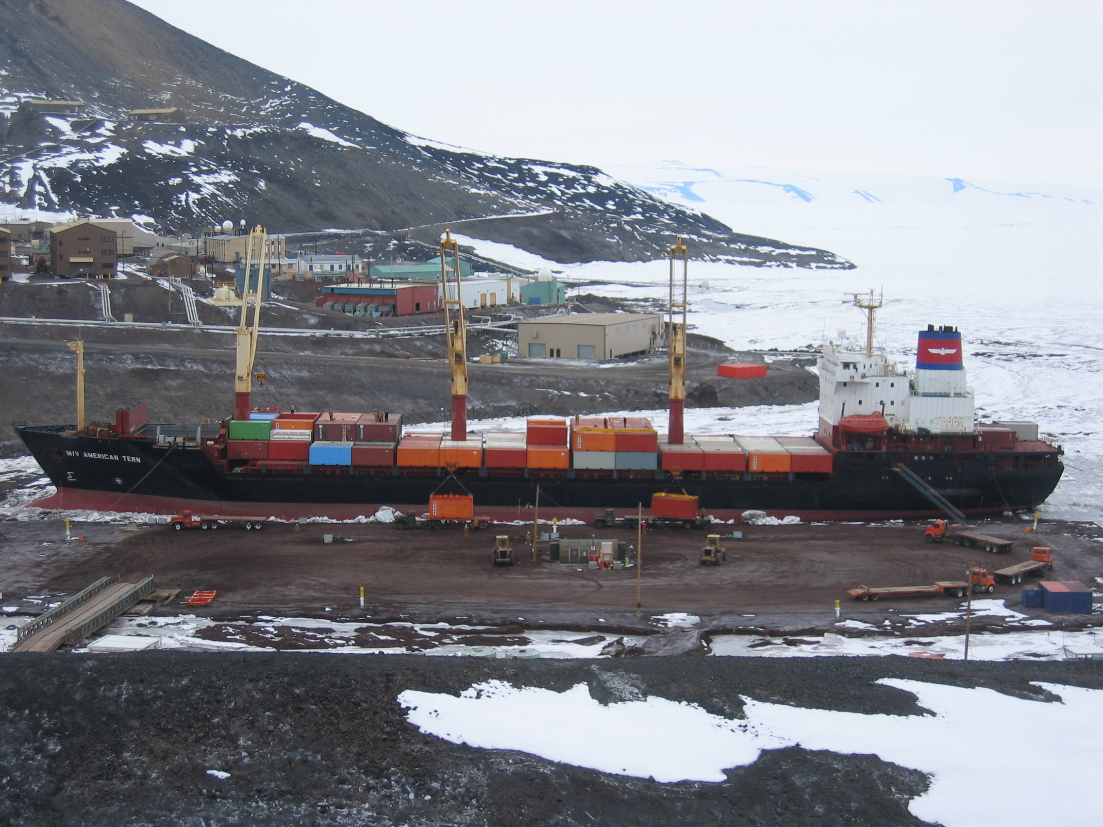 The supply ship M/V American Tern during cargo operations at McMurdo Station.